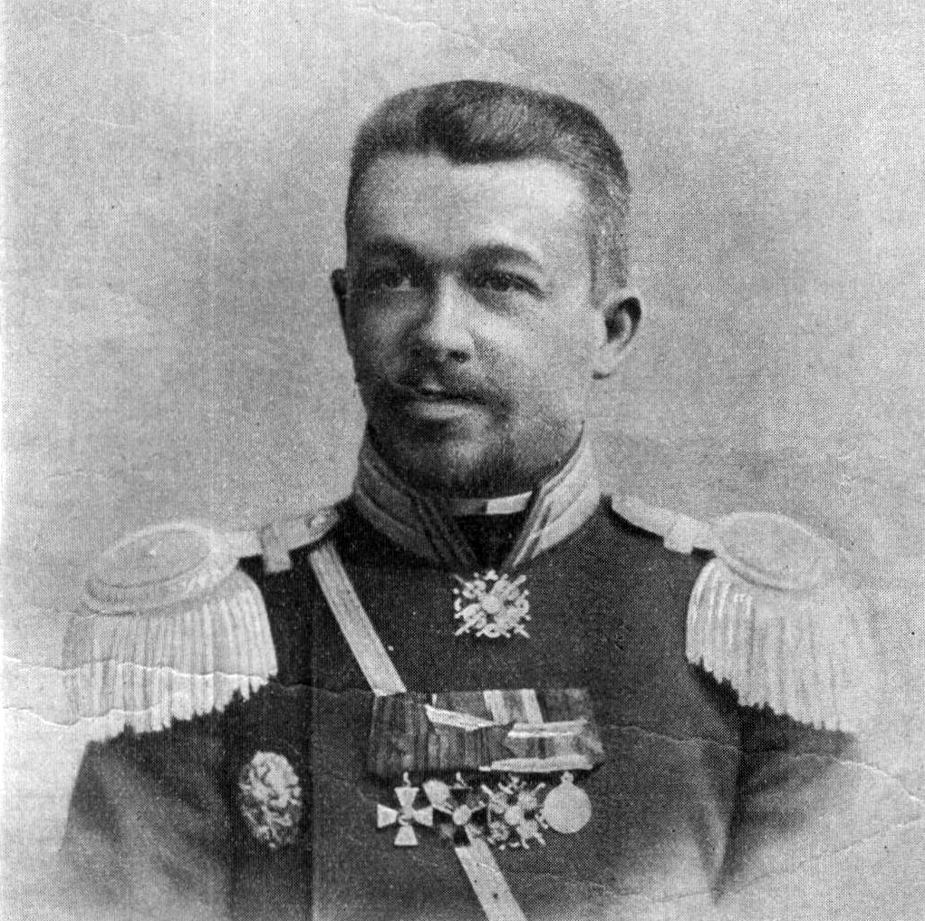 Shvarts fon, Aleksey Vladimirovich.